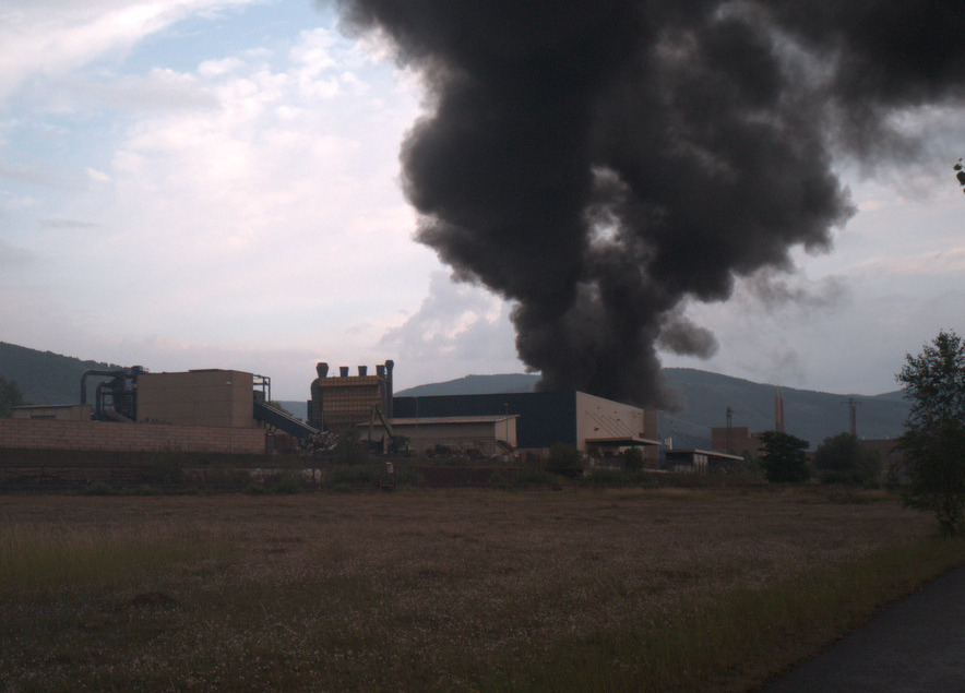 Fire in the Zinkhütte Harlingerode, Germany, July 11 2017.